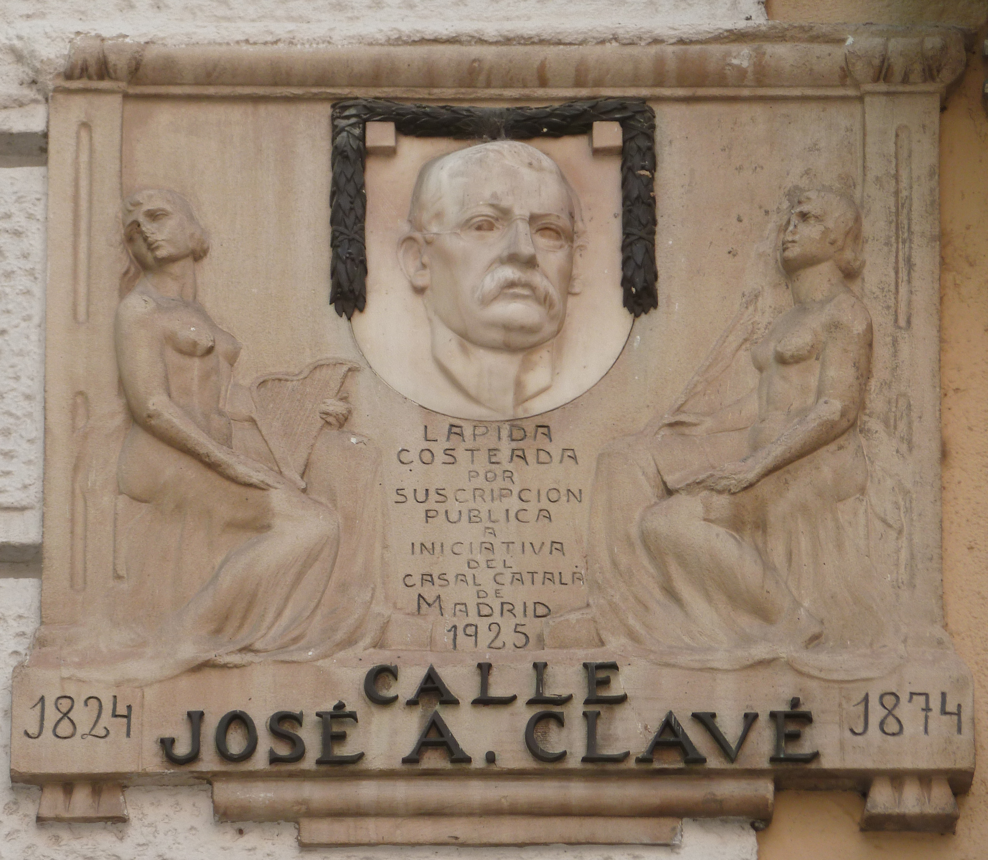 Stone plaque dedicated to Josep Anselm Clavé in Madrid (Spain). Unveiled in 1925.